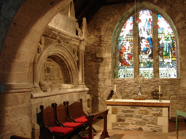 Chancel of Greyfriars Church, Kirkcudbright, Dumfries and Galloway. The chancel is a late 16th-century laird's aisle, the northeast side filled by the notable monument to Thomas MacLellan of Bombie and his wife (circa 1635). The glass in the three-light window represents the Adoration of the Magi and was made in 1921.